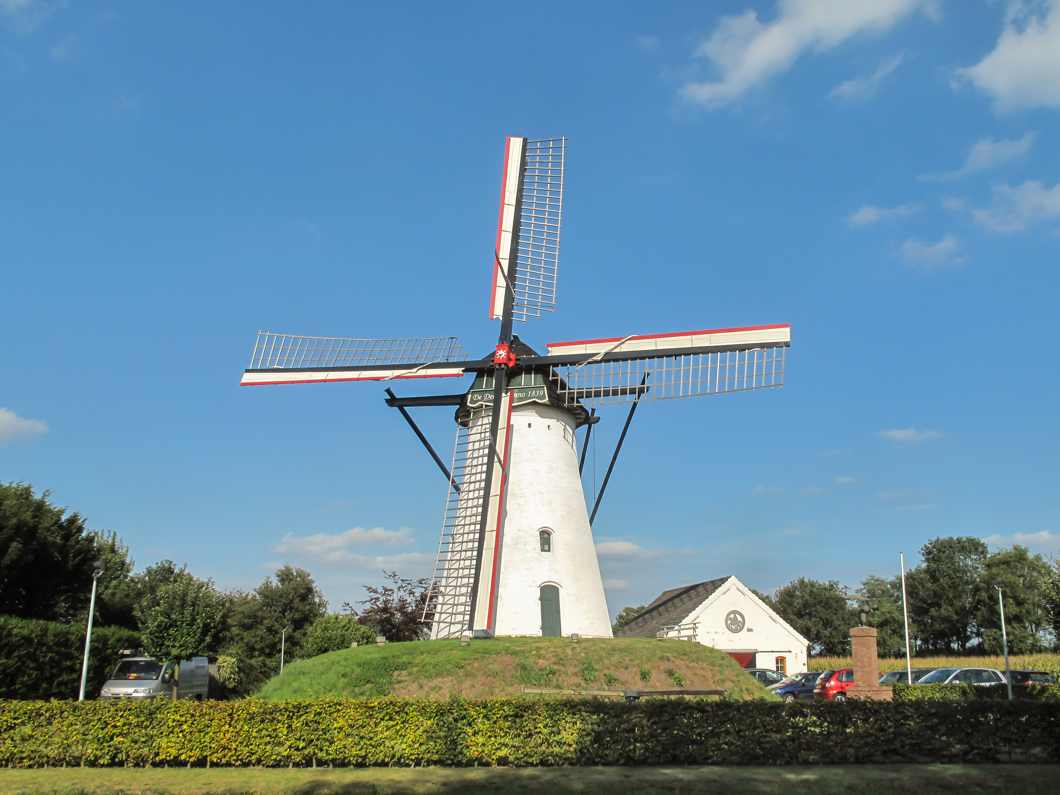 Luyksgestel, windmill: windkorenmolen De Deen